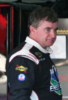 Joe Nemechek in the garage at Charlotte Motor Speedway, May 29, 2011.